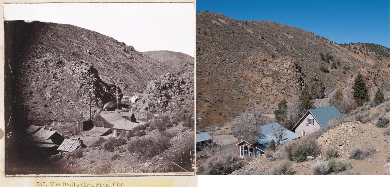 Devil's Gate as seen from the townsite of Silver City. State Route 342 goes through the "gate" on its way to Virginia City. Original view is circa 1866: half of a stereo pair.